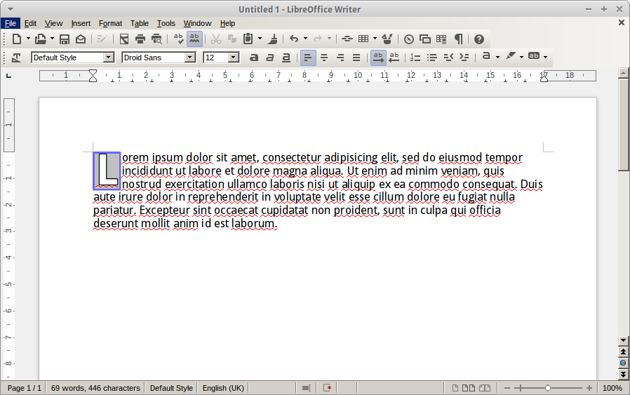 LibreOffice 4.2.1.1, Windows version running in Wine on Xubuntu. Shown is a character border and the Sifr icons in the interface.